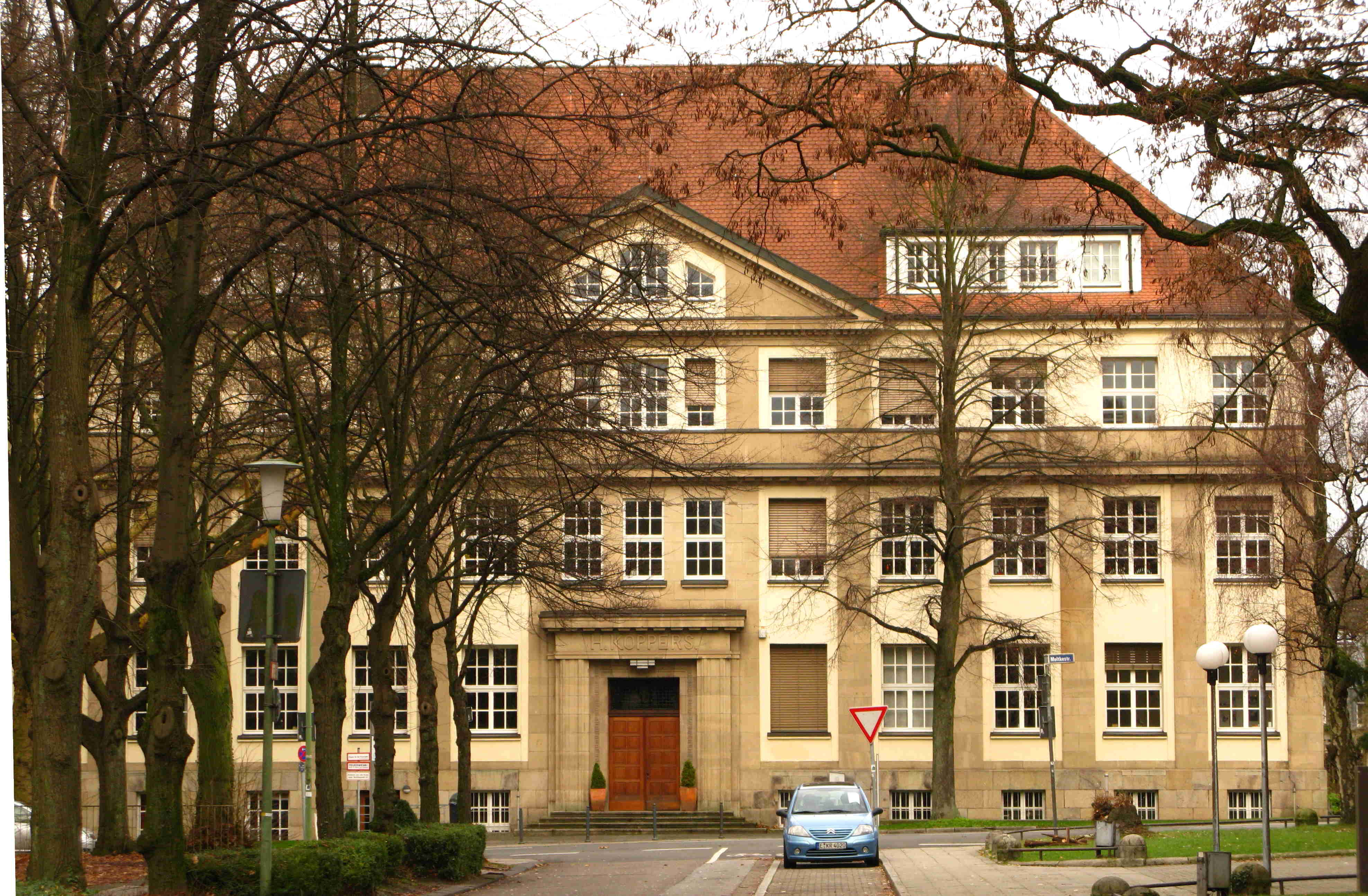 Essen Moltkeviertel Moltkestrasse: former head quarters of industrialist Heinrich Koppers